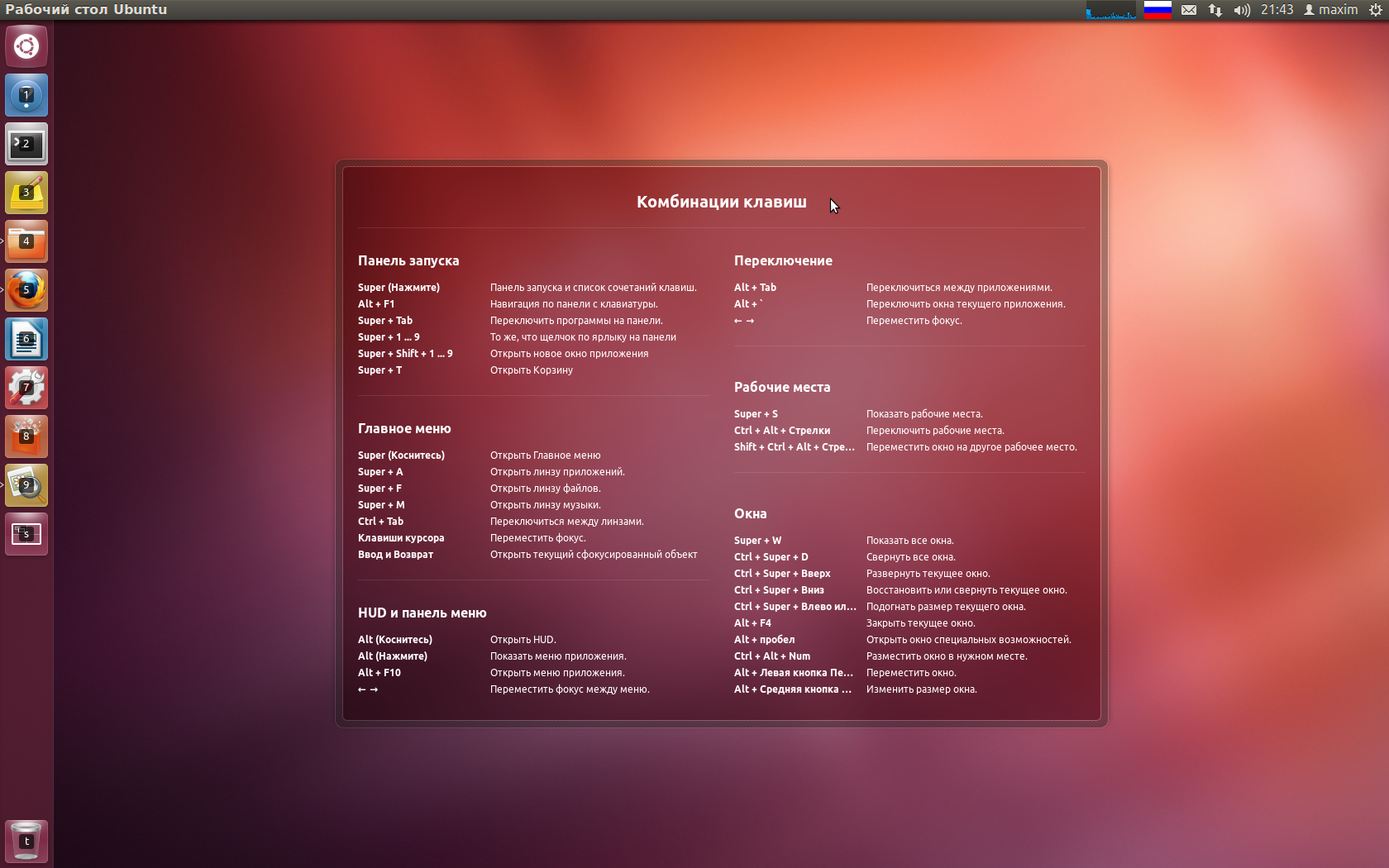 Keyboard shortcuts of Unity in Ubuntu 12.04 LTS - overlay help by Super key. In Russian.